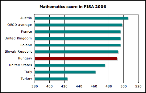 Mathematics score in PISA 2006 in Austria, France, United Kingdom, Poland, Slovak Republic, Hungary, United States, Italy, and Turkey.